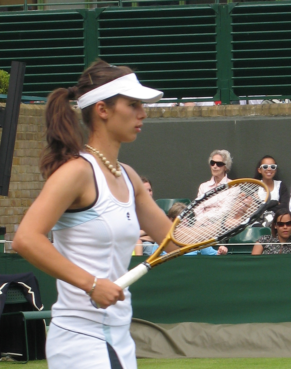 Tsvetana Pironkova at Wimbledon 2008